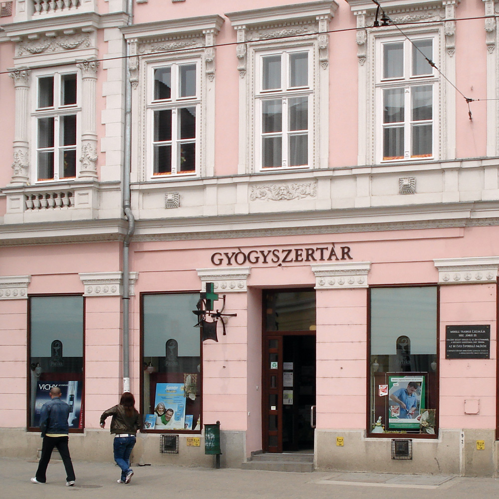 Pharmacy for Golden Snake, Miskolc, Hungary